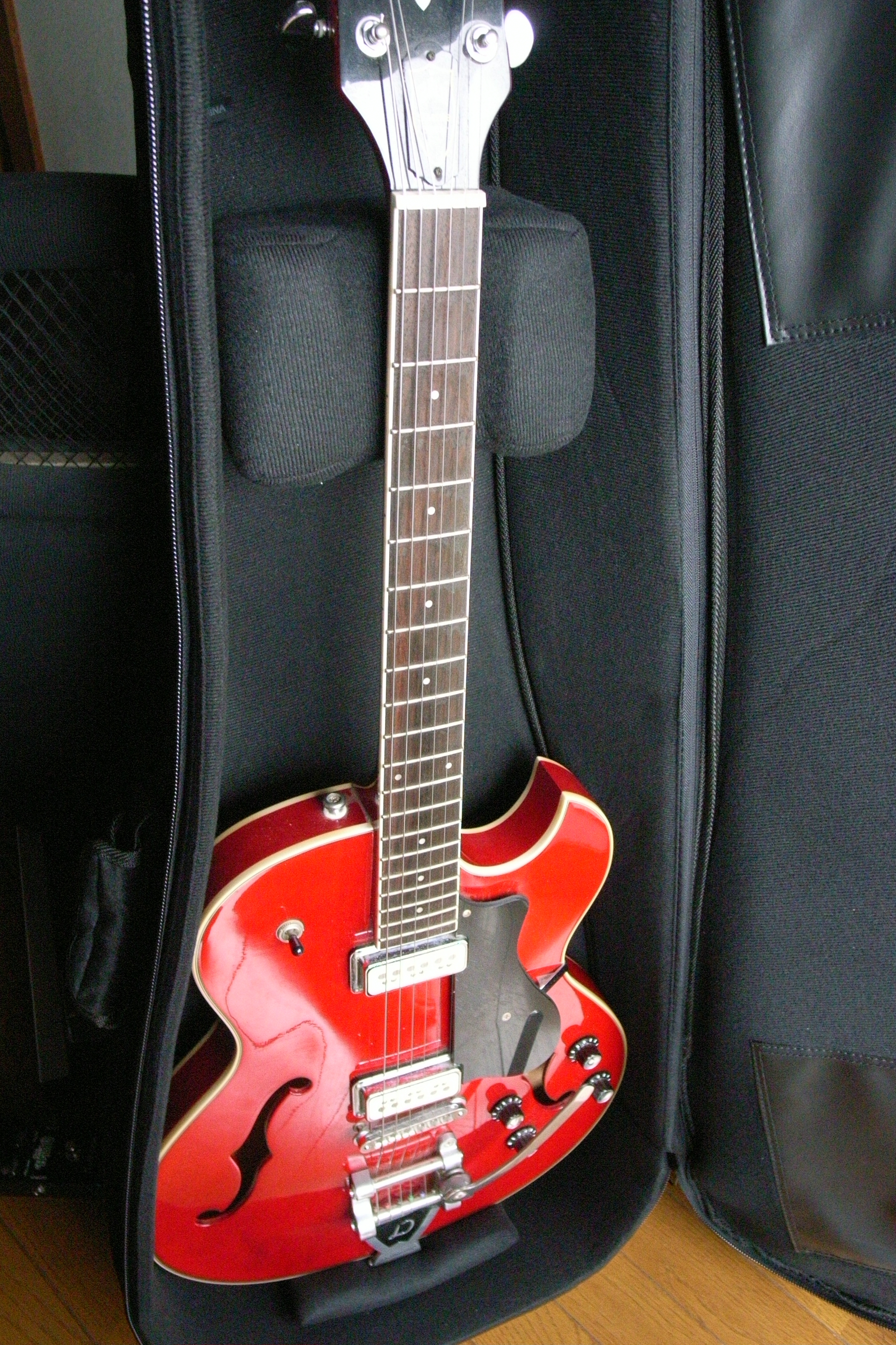 DeArmond Starfire Special (ca.1999) in Tribal Planet GX15 DA (gig bag)